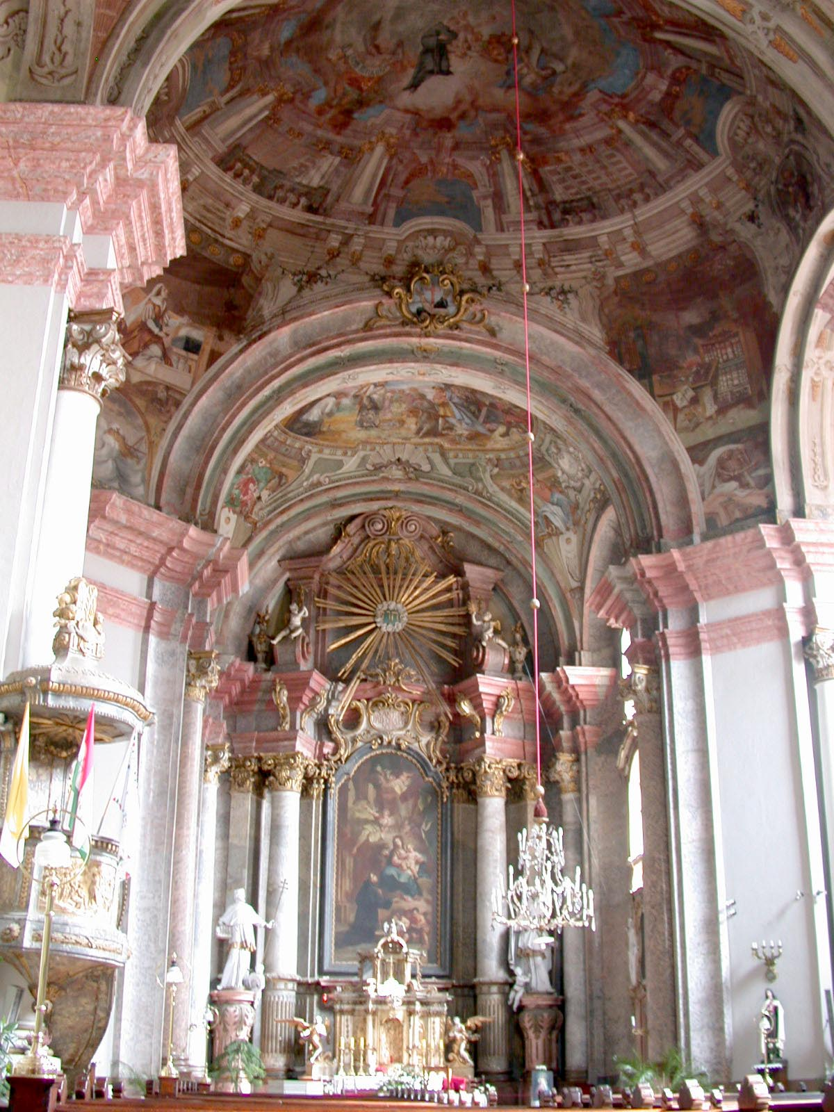 Minorite Church Interior Eger/Hungary